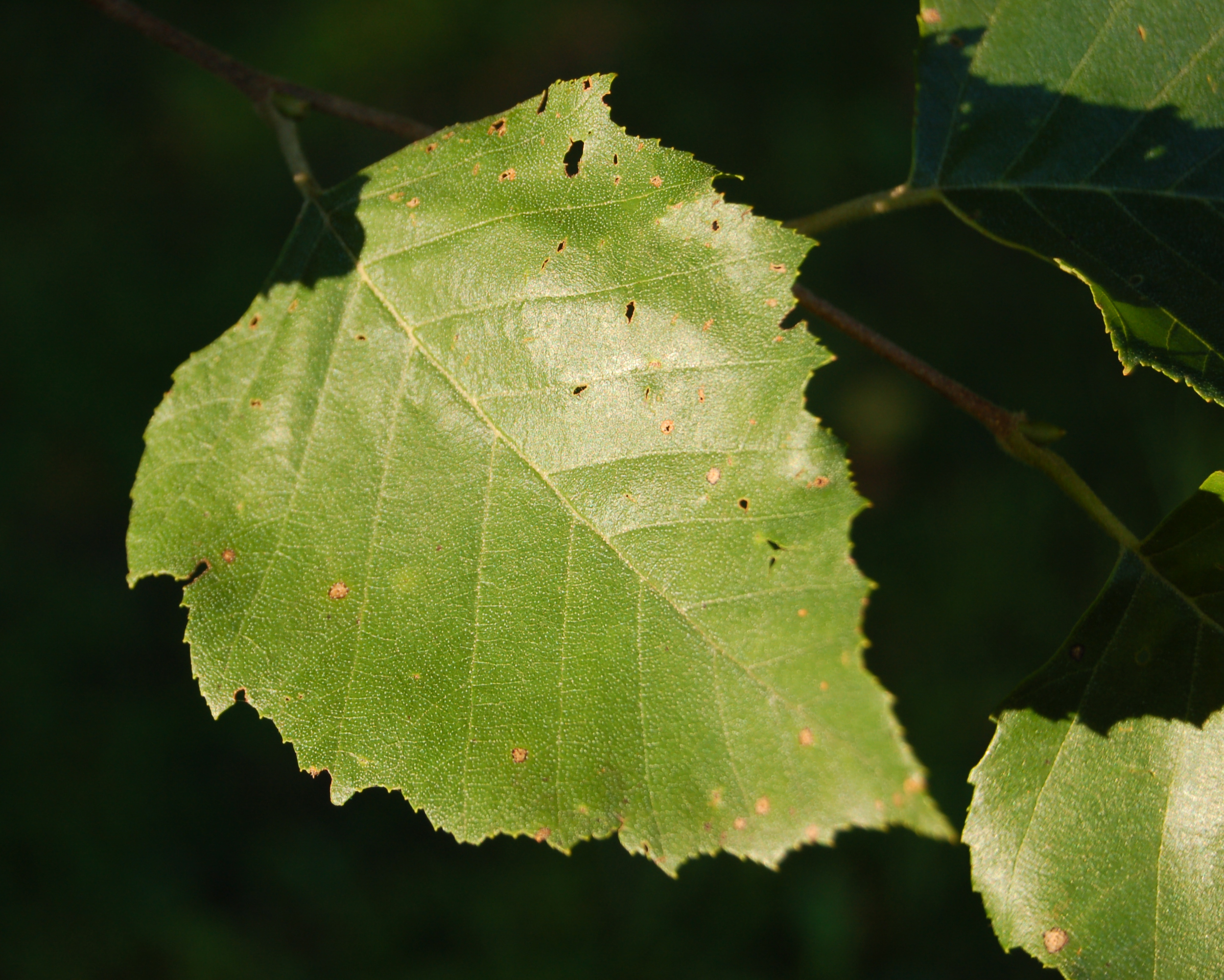 Photograph of the River Birchen (Betula nigra en ). Photo taken at the Tyler Arboretum where it was identified.